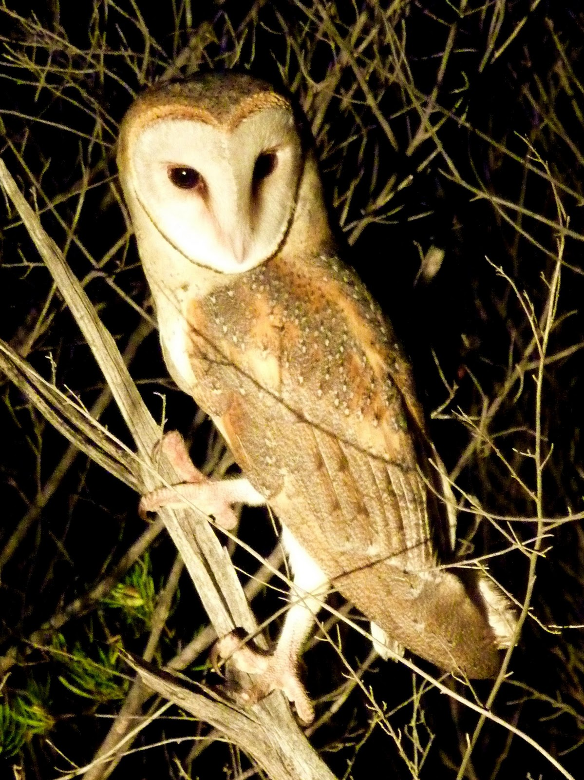 Pacific Barn Owl (Tyto javanica, syn. Tyto alba javanica), Northern Territory, Australia